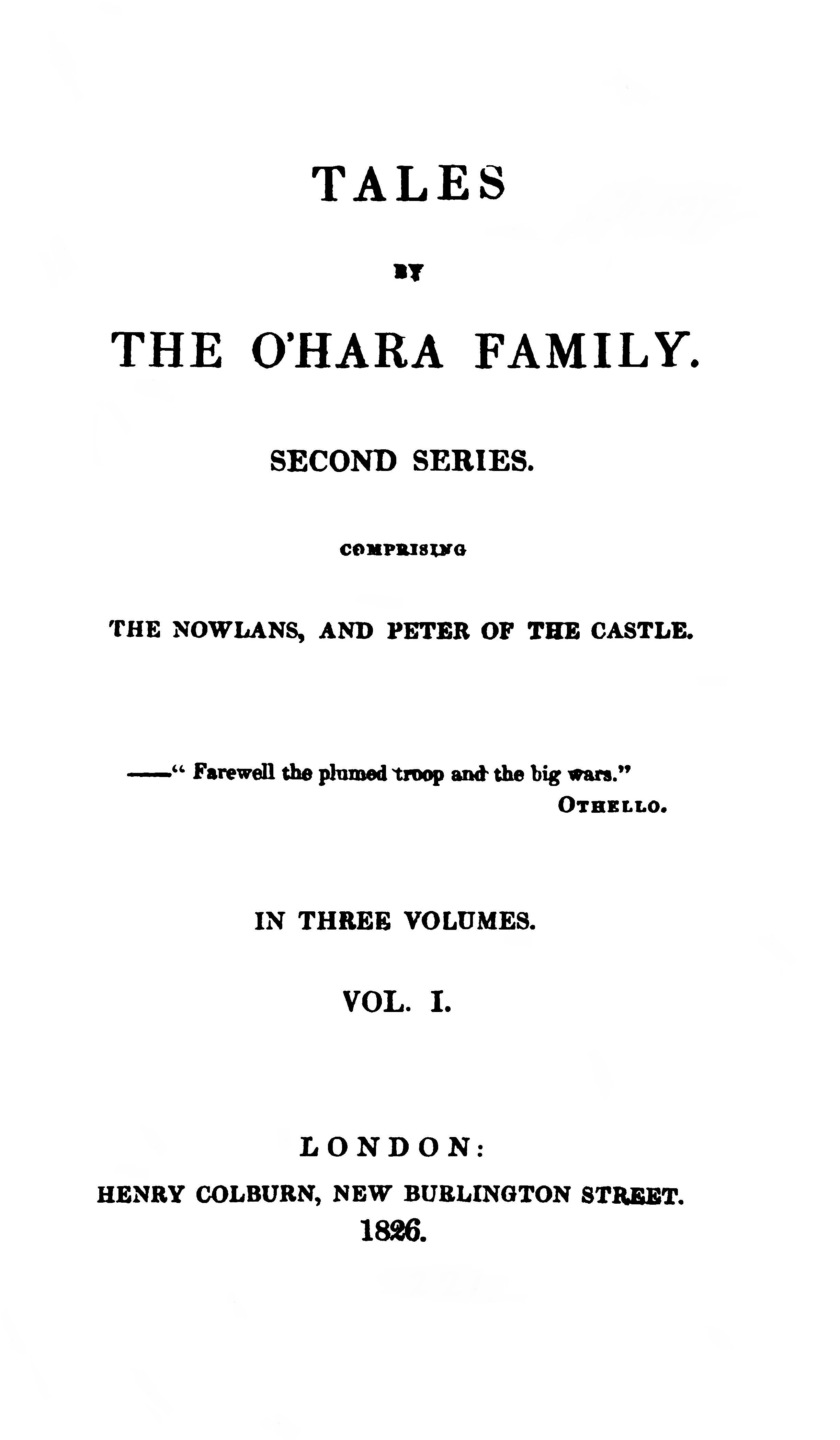 First edition title page